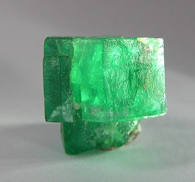 Beryl (Var.: Emerald) Locality: Muzo, Vasquez-Yacopí Mining District, Boyacá Department, Colombia (Locality at ) Size: 1.6 x 1.6 x 0.8 cm. A bright grass-green Columbian emerald, with both terminations intact! (two small crystals are growing out of one of the terminations). It is translucent-to-transparent, and while not quite cutter quality, it has a lot of gemminess to it. In fact, parts of it COULD cut nice smaller stones. But this should be preserved as a fine crystal without cutting. Weighs 5 grams.